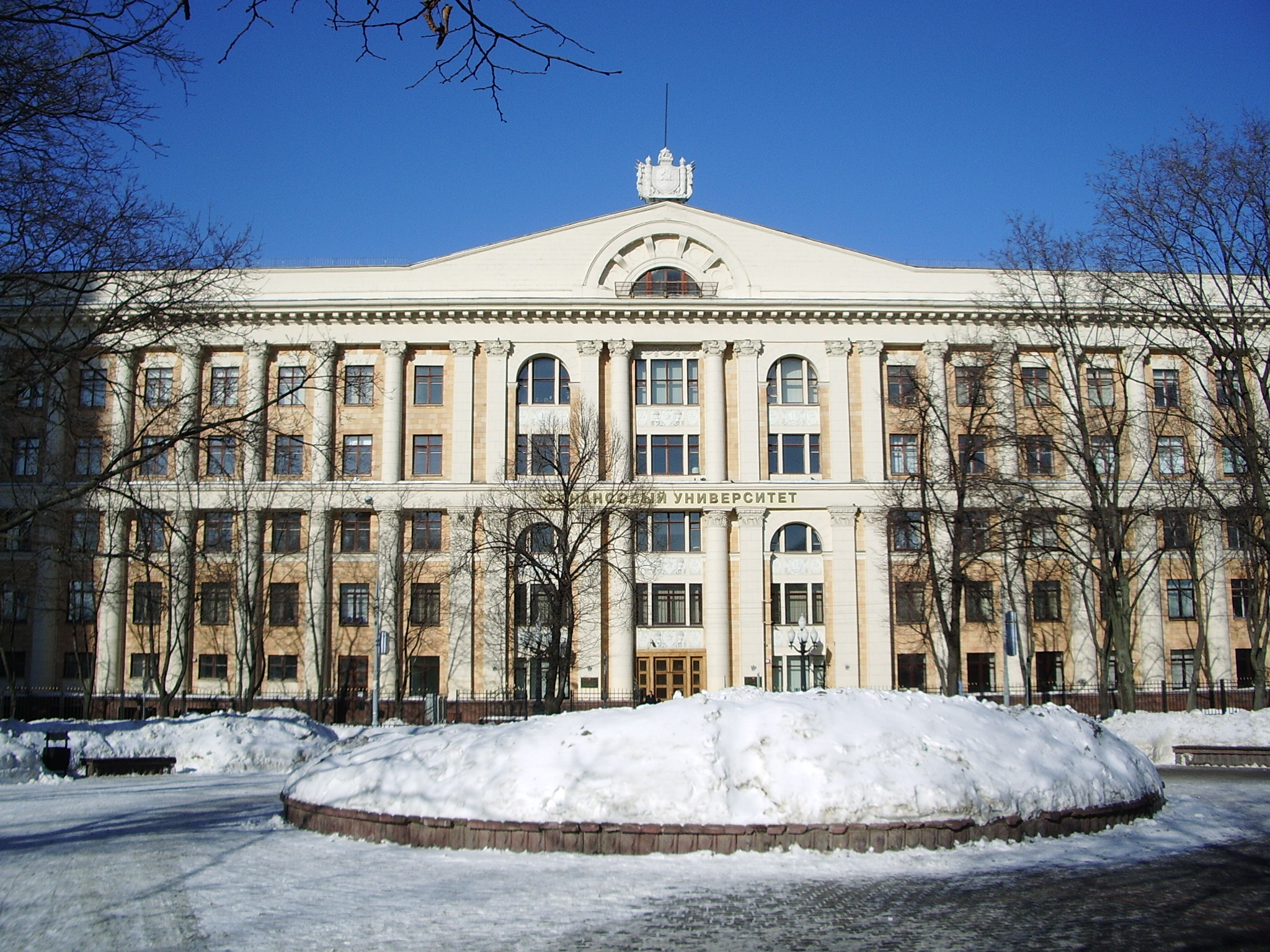 Finance University under the Government of the Russian Federation